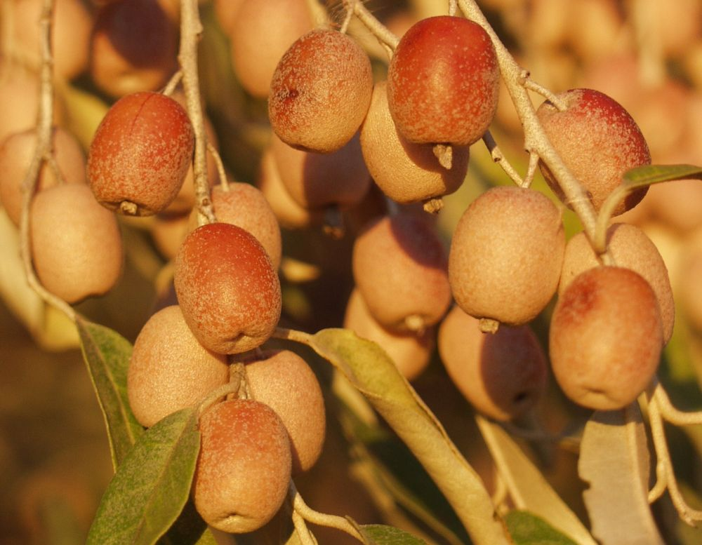 Elaeagnus angustifolia in Mekszikópuszta, Hungary